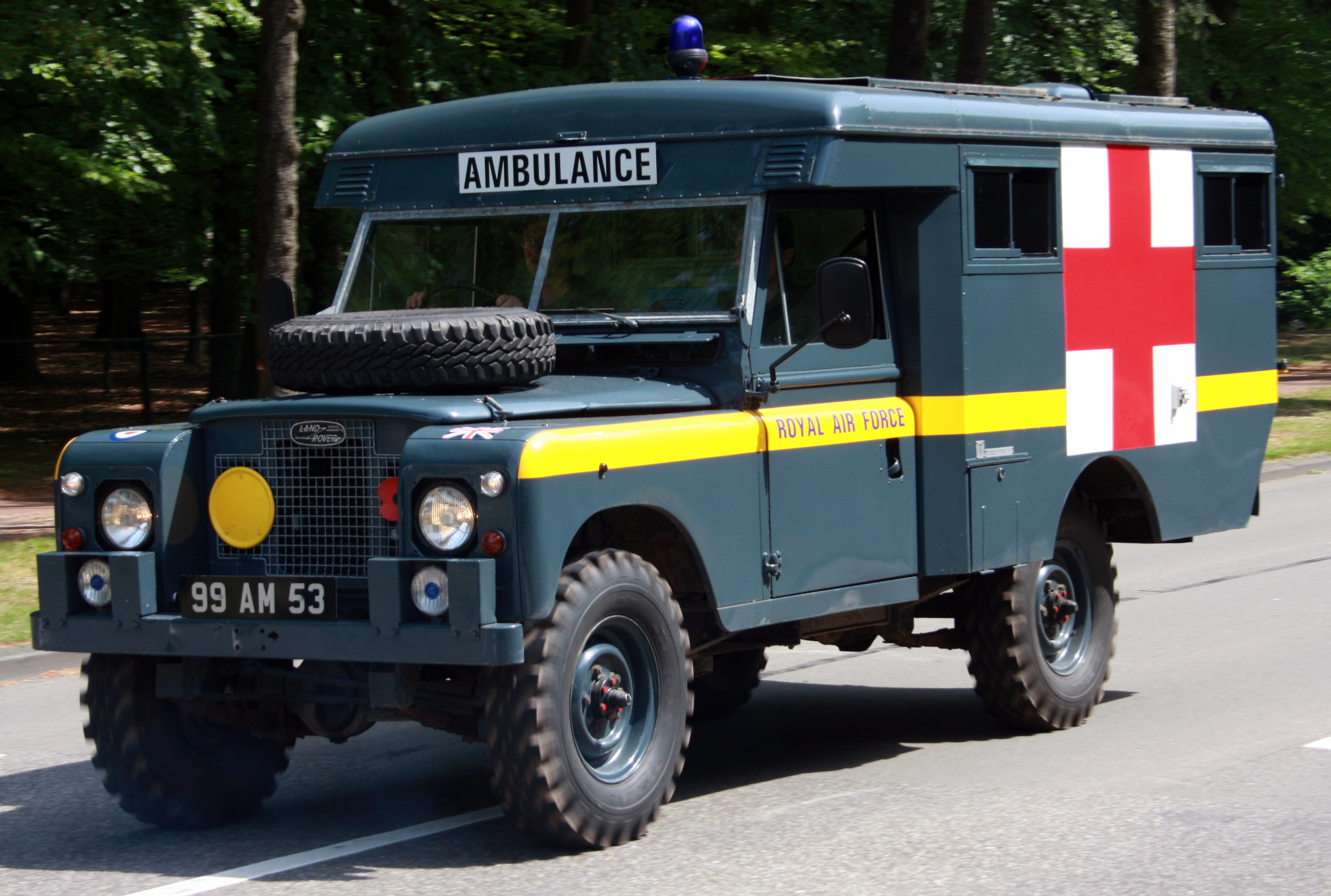 Landrover historical ambulance(Series I/II/IIA metal grille + Series II/IIA door hinges + headlights in the wings: 1969-1971 Series IIA model)